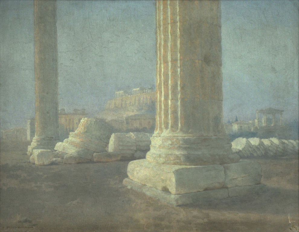 Columns of Olympian Zeus